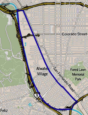 Map of Atwater Village — a neighborhood in Northeast Los Angeles, California. This map may be incomplete, and may contain errors. Don't rely solely on it for navigation.